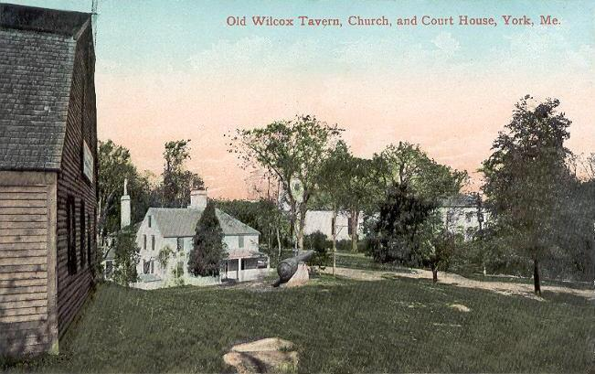 Old Wilcox Tavern, Church and Courthouse, York Village, ME; from a c. 1912 postcard published by the Valentine Company.